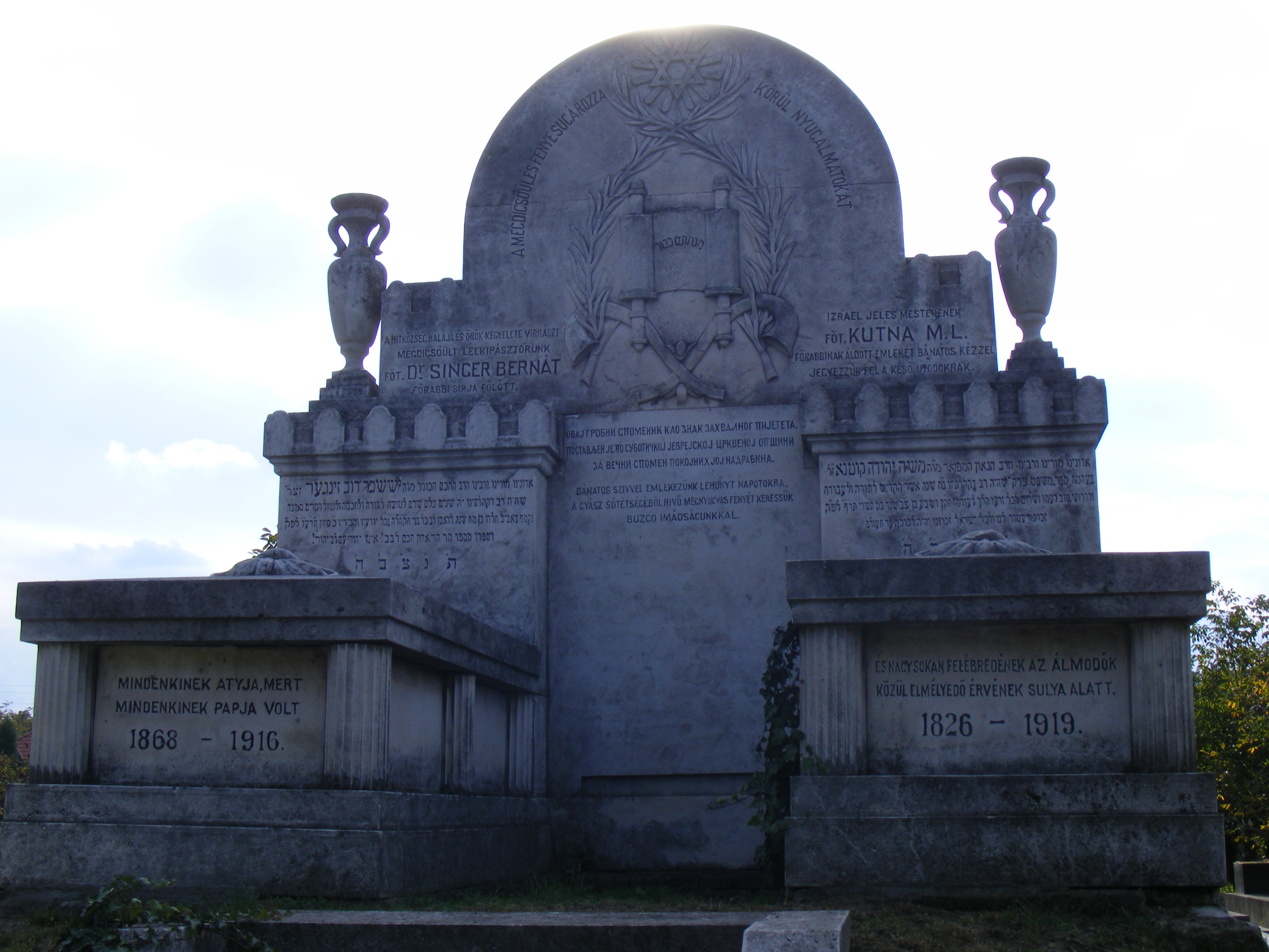 Bernát Singer rabbi's tomb.